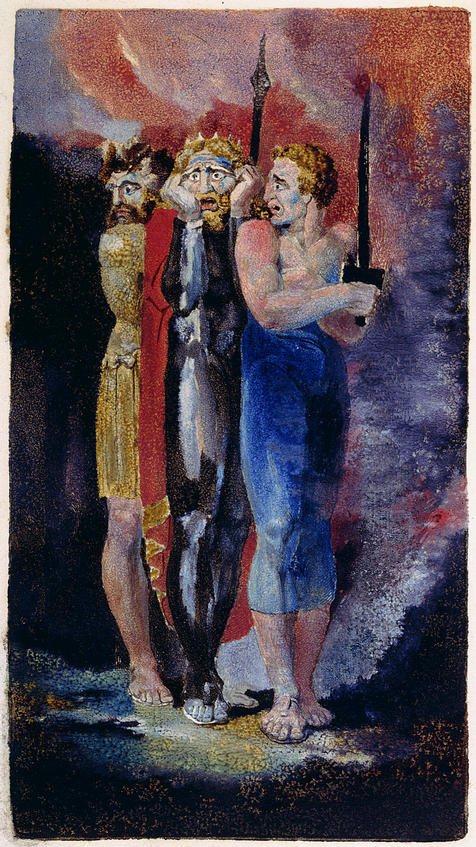 When the senses are shaken - intaglio colour etching by William Blake from his 1796 book 'A Large Book of Designs'